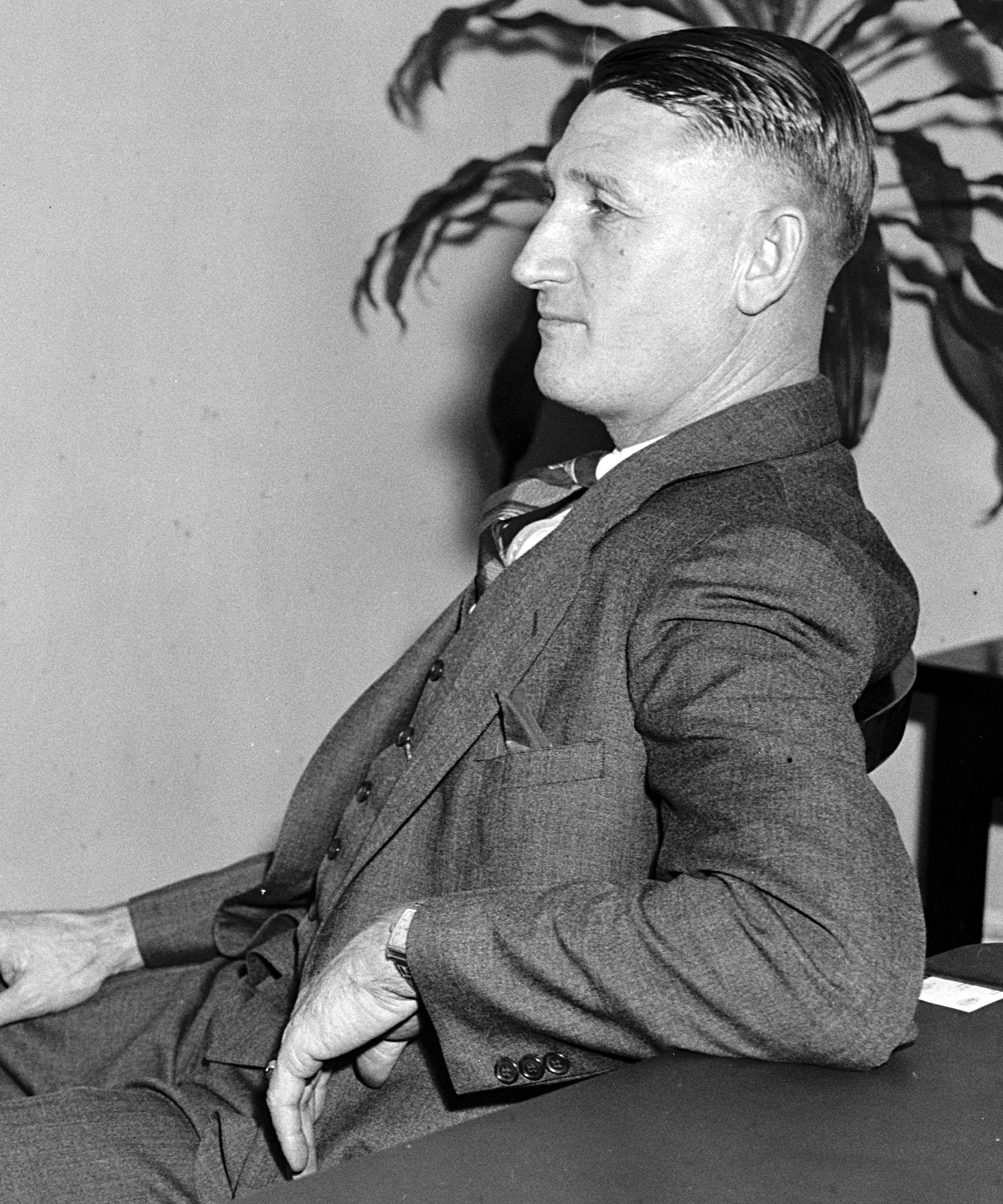 Alfred J. Elliott, US Representative from California